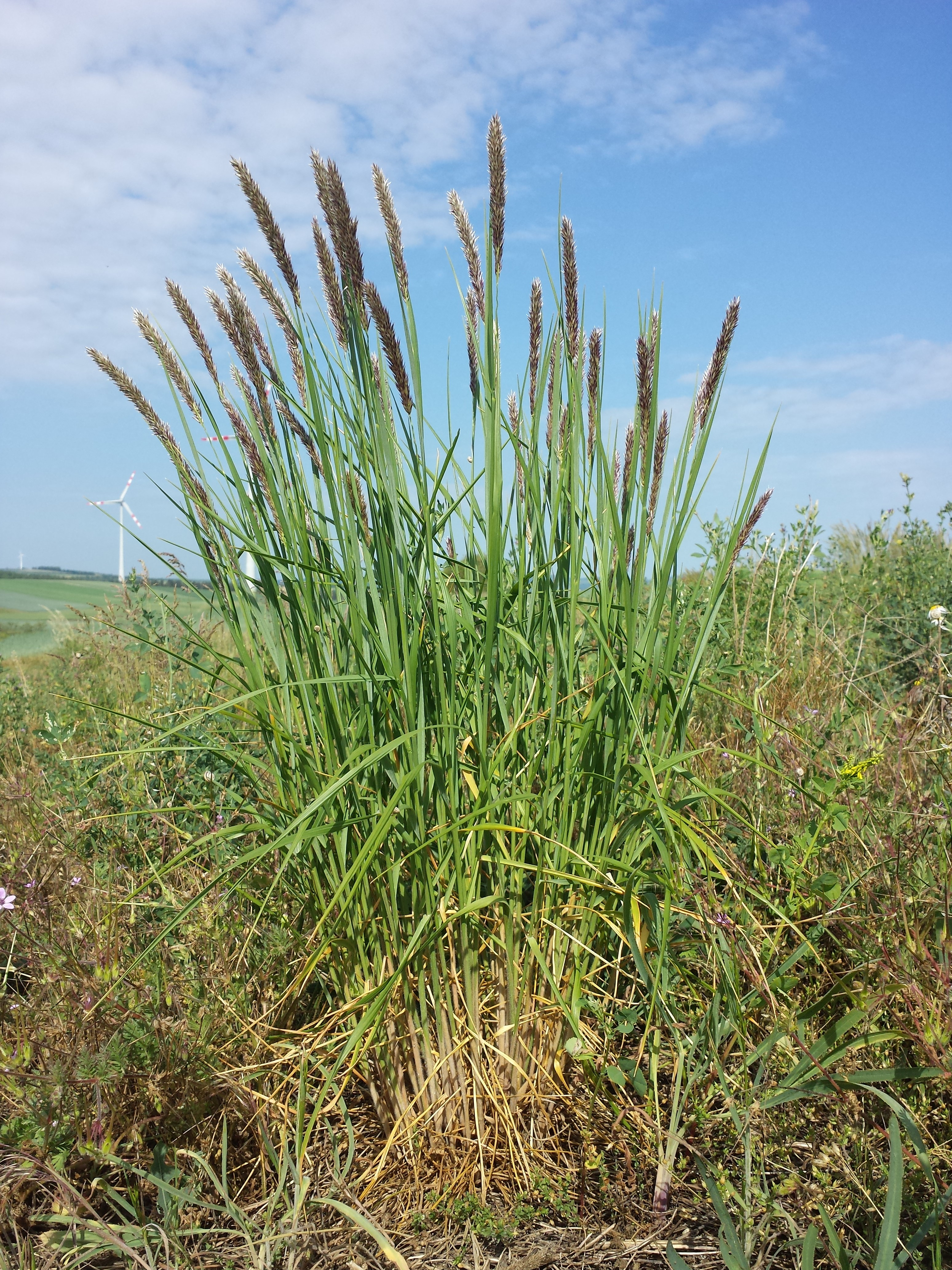 Habitus Taxonym: Melica transsilvanica (subsp. transsilvanica) ss Fischer et al. EfÖLS 2008 ISBN 978-3-85474-187-9 Location: to the Sourth of Ladendorf, district Mistelbach, Lower Austria - ca. 260 m a.s.l. Habitat: dry meadows